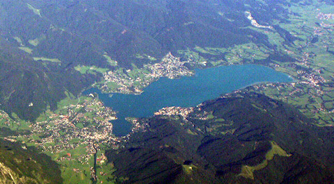 Aerial view of Tegernsee lake, Bavaria, Germany.